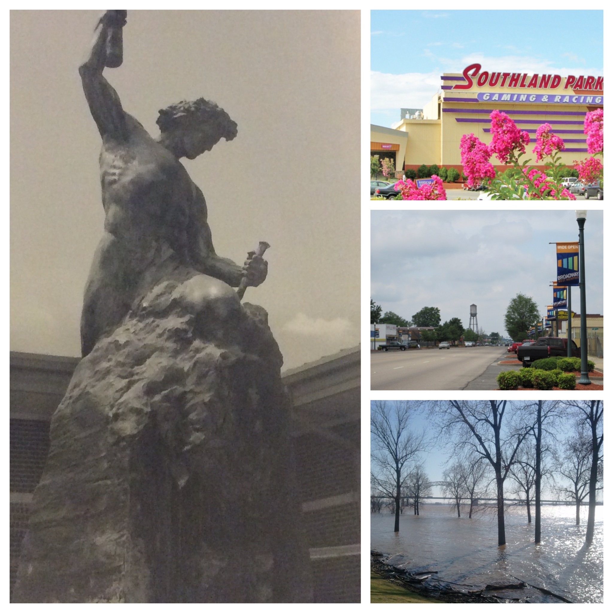 West Memphis, AR